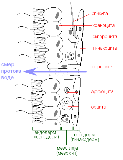 Types of cells in asconoid sponges (names given in Serbian)